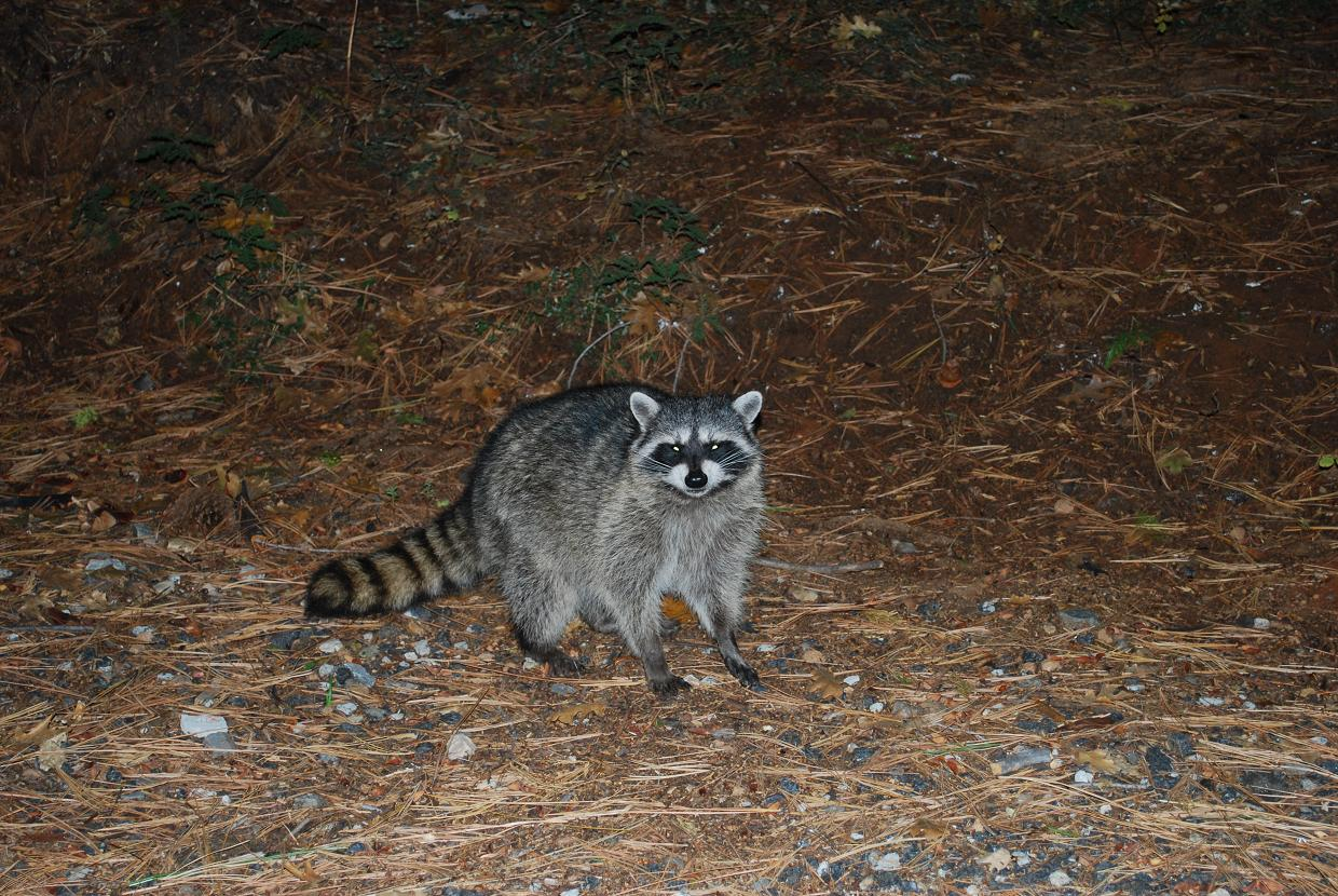 Raccoon